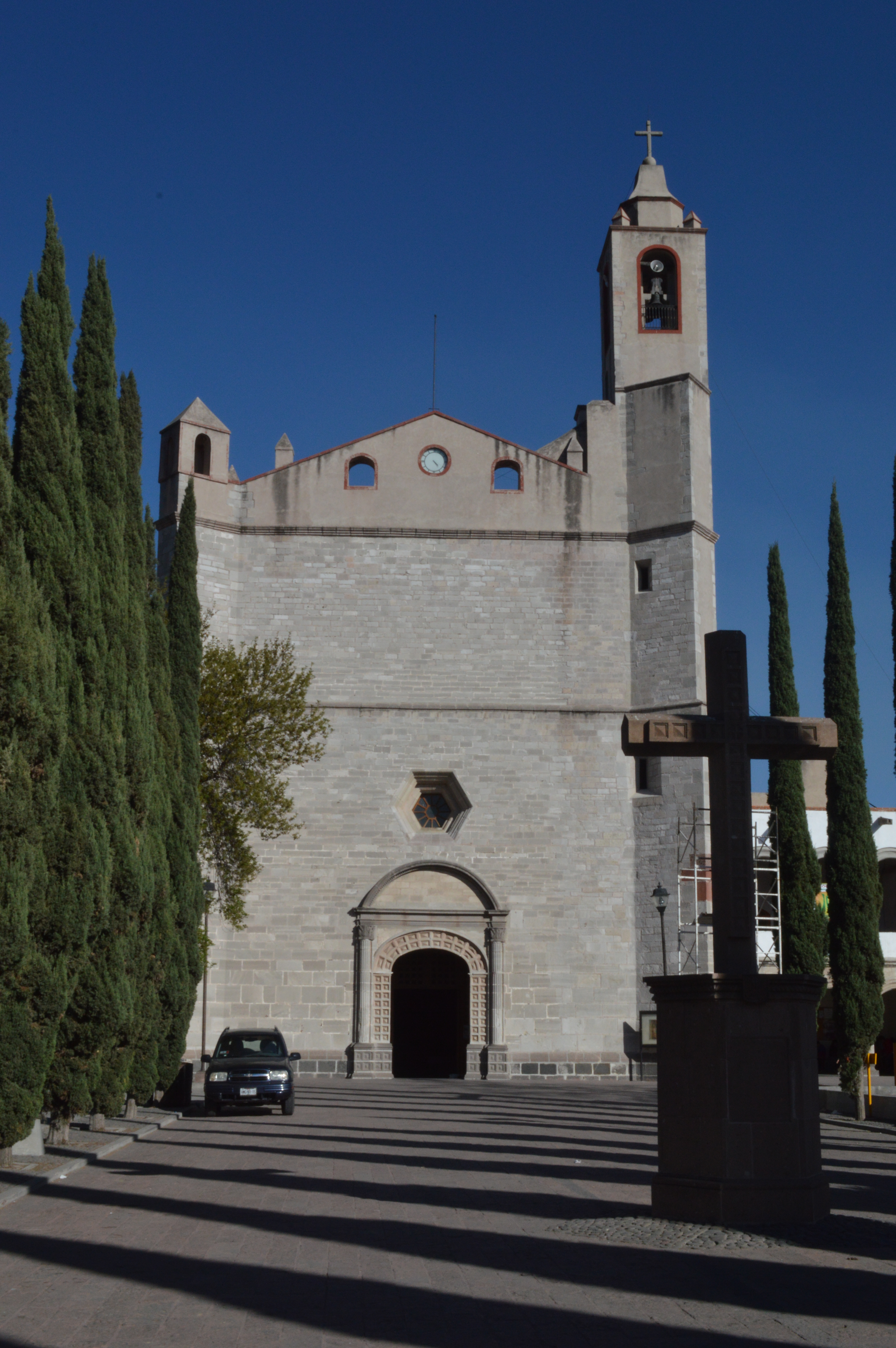 View of the Tula Cathedral in Tula de Allende, Hidalgo